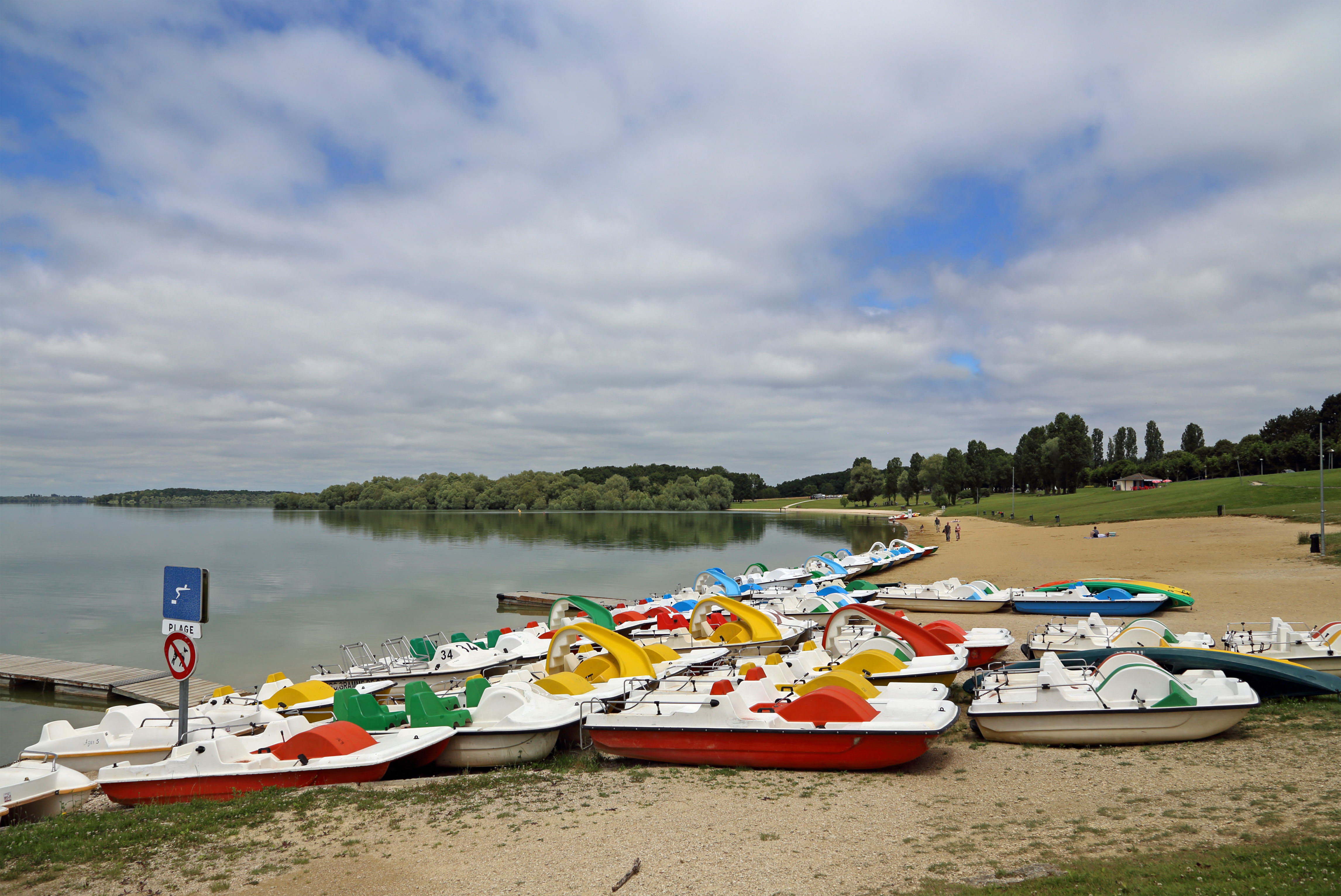 Mesnil-Saint-Père (Aube department, France): the Lac d'Orient and the beach